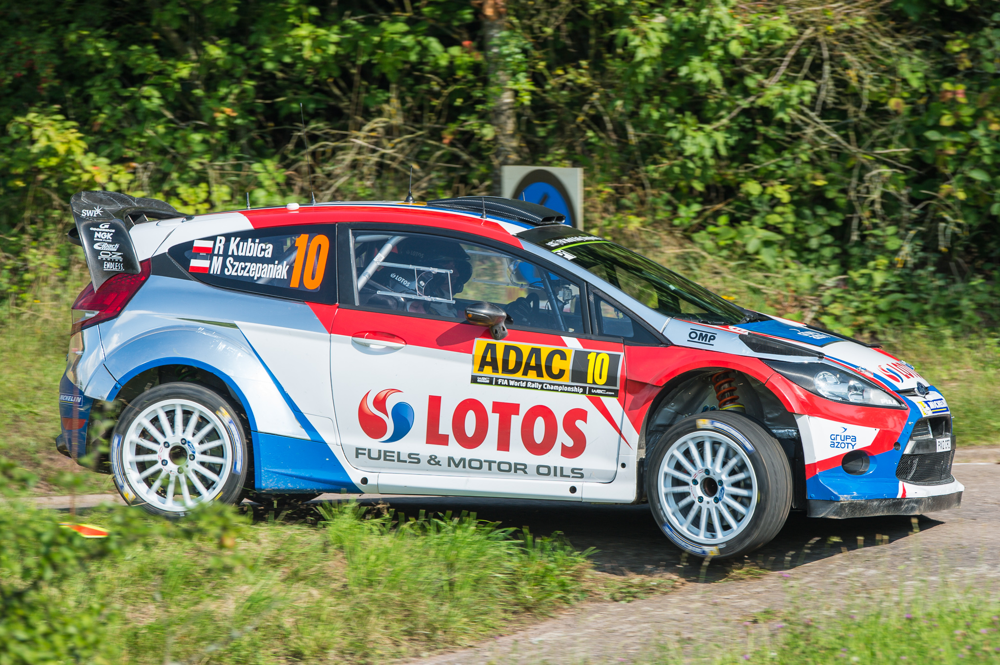 ADAC Rallye Deutschland 2014,FIA,FIA World Rally Championship,Ford Fiesta RS WRC,Maciej Szczepaniak,Motorsport,RK M-Sport WRT,RK M-sport World Rally Team,Rally,Rallye,Robert Kubica,Shakedown,WRC